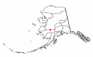 Adapted from Wikipedia's AK borough maps by Seth Ilys.